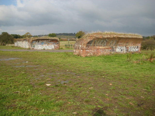 Edgwarebury: Derelict railway viaduct built for Brockley Hill tube station